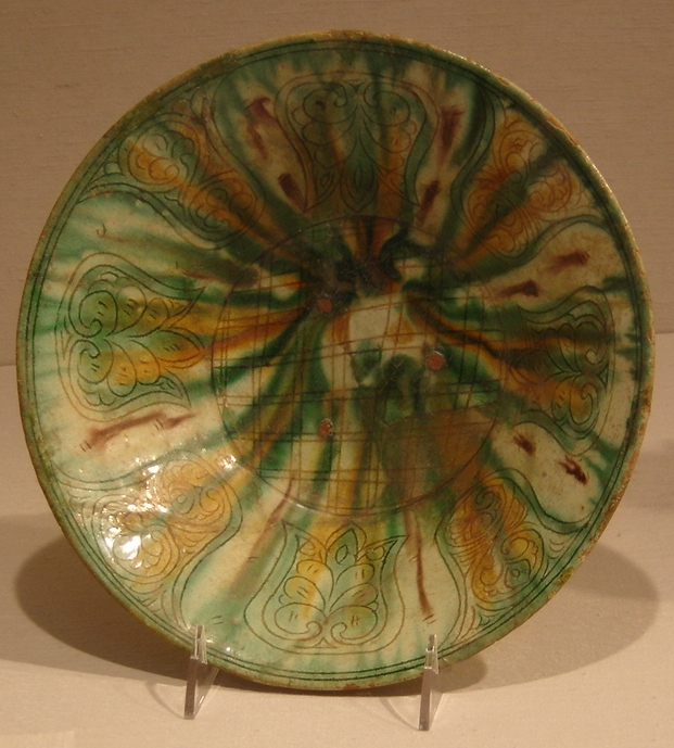 Bowl with white slip, incised design, colored, and glazed. Excavated at Sabz Pushan, Neishapur, Iran. Samanid era, 9th-early 10th century. New York Metropolitan Museum of Art.